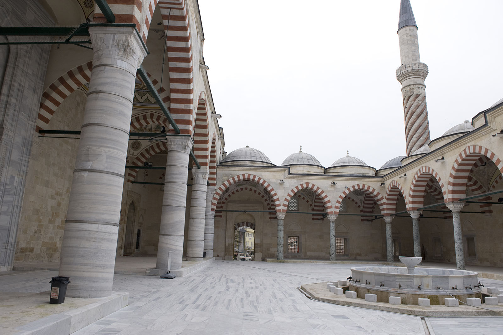 The mosque (Üç Şerefeli Camii (Mosque with – a minaret with – Three Balconies) was built by Sultan Murat II between 1437-1447) and is famous for the decoration of its minarets, one of which has three balconies, at that time most unusual.